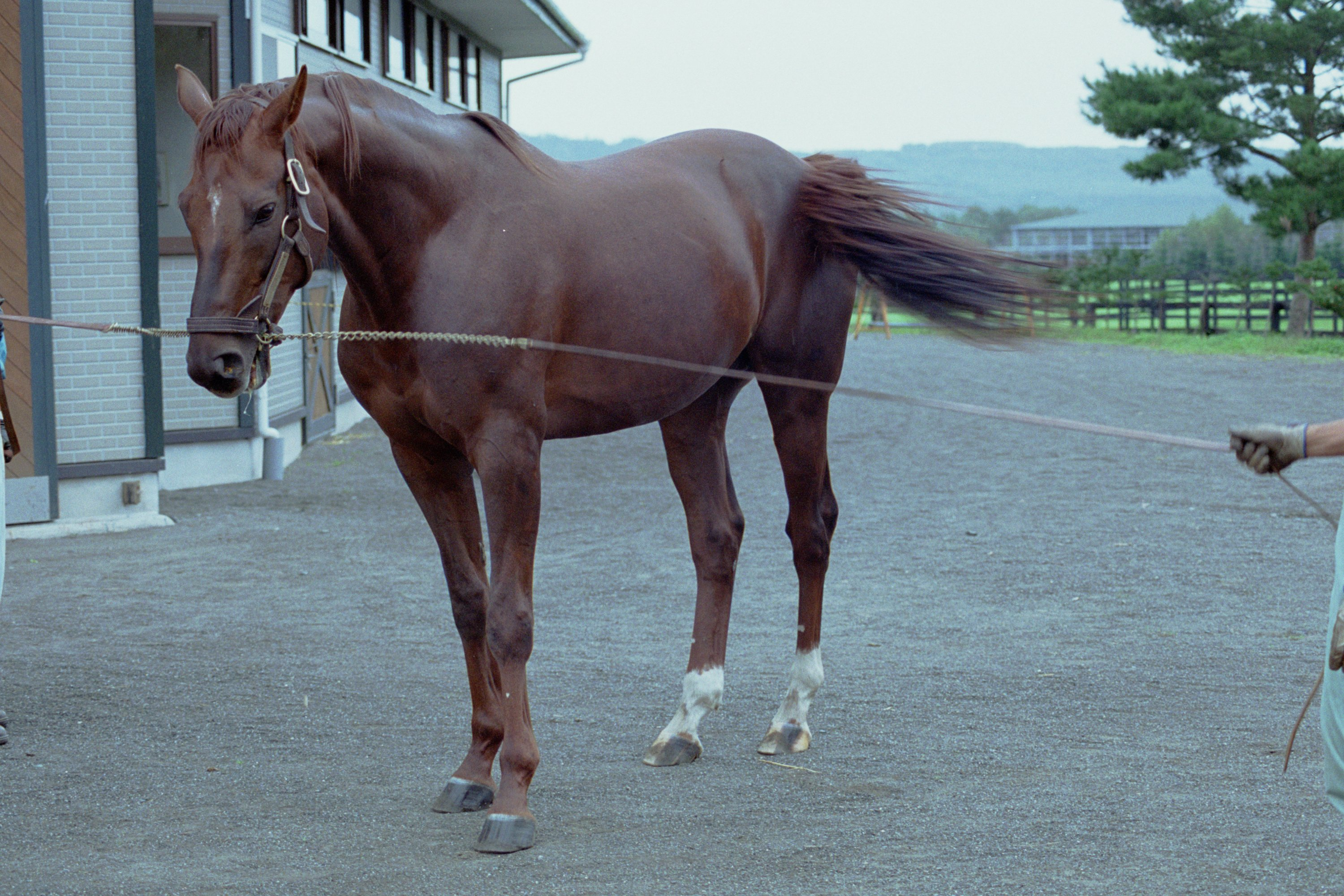 Sakura Laurel at Shizunai Stallion Station,Shin-Hidaka(Shizunai) Hokkaido Japan